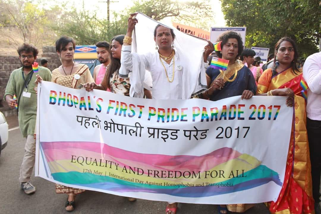 Queermitra LGBT pride